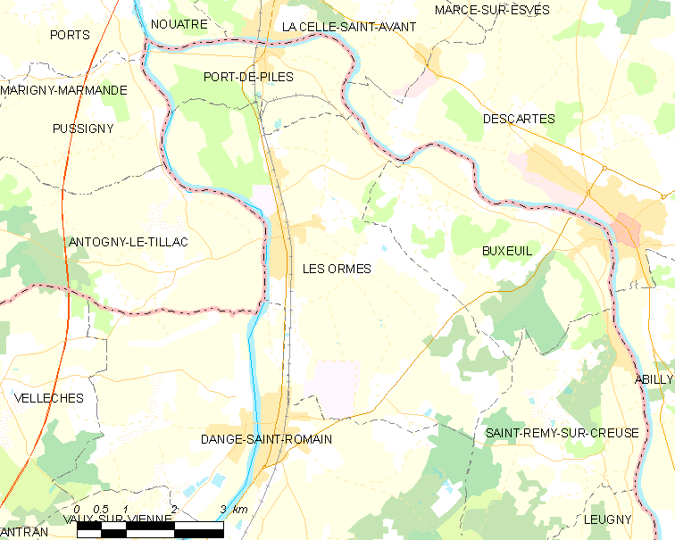 Map of French municipality Les Ormes